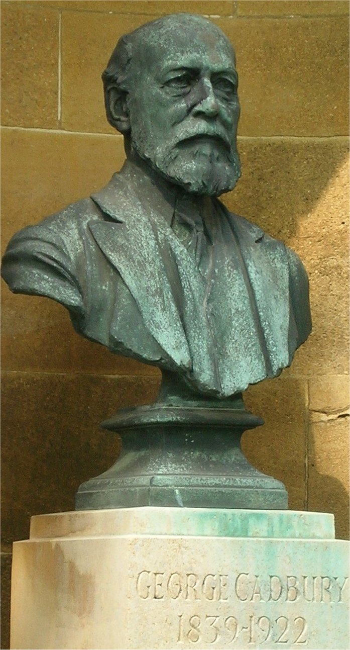 Bust of George Cadbury outside the Friends meeting house, Bournville, Birmingham, England. Photographed by me 27 April 2007. Oosoom